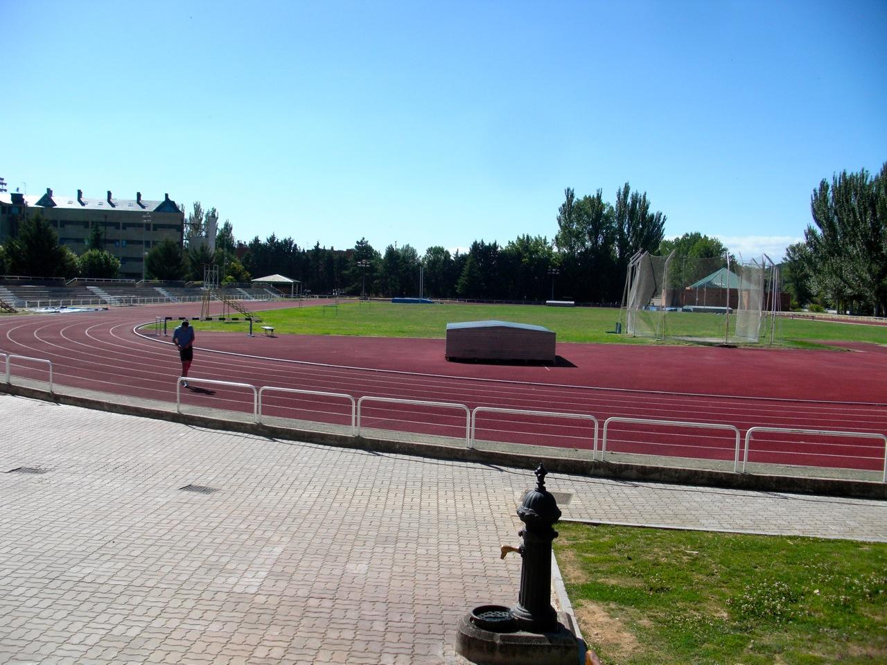 Sports field at the University of Burgos sports complex